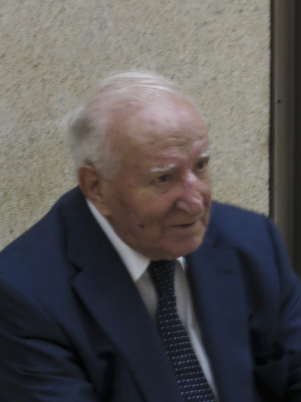 Eduardo Lourenço